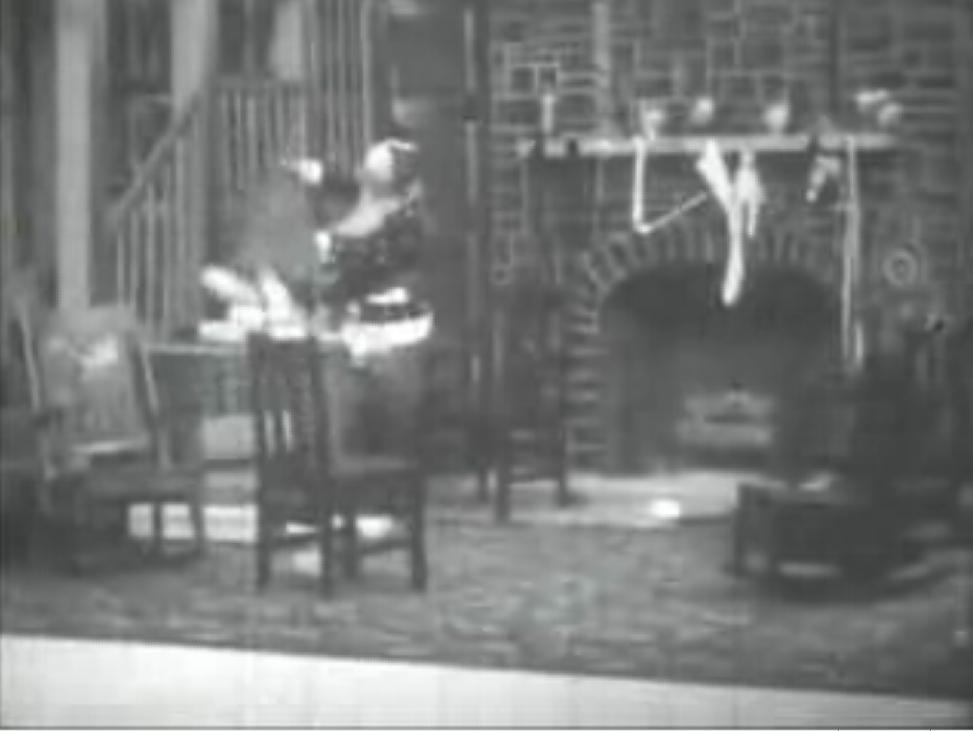 Santa bringing presents, in the 1905 film "The Night Before Christmas"